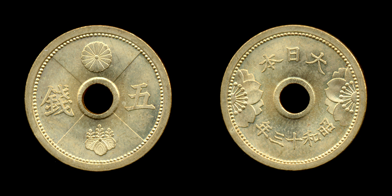 5sen-S13